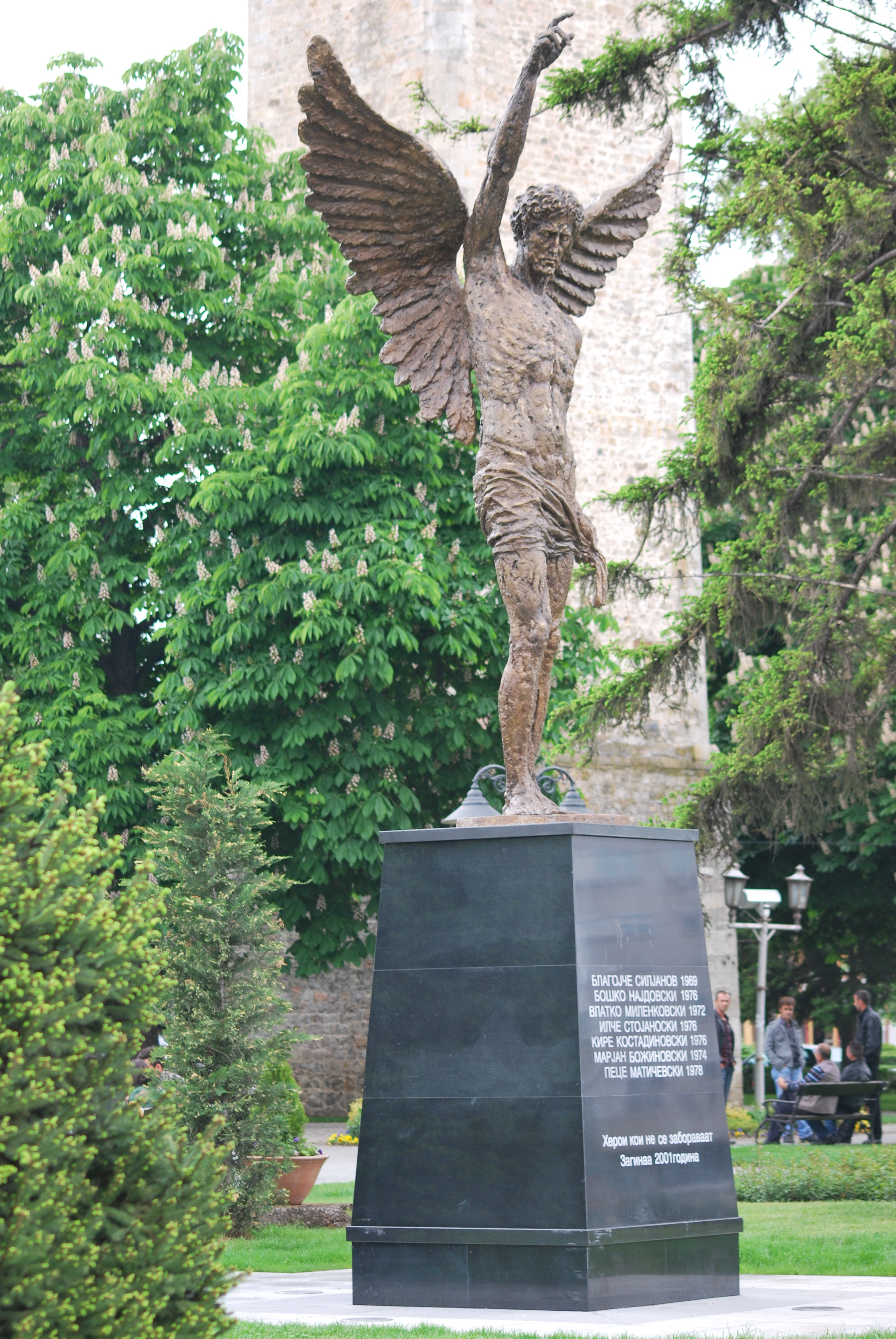 Monument to the Defenders of Macedonia in Bitola, Macedonia